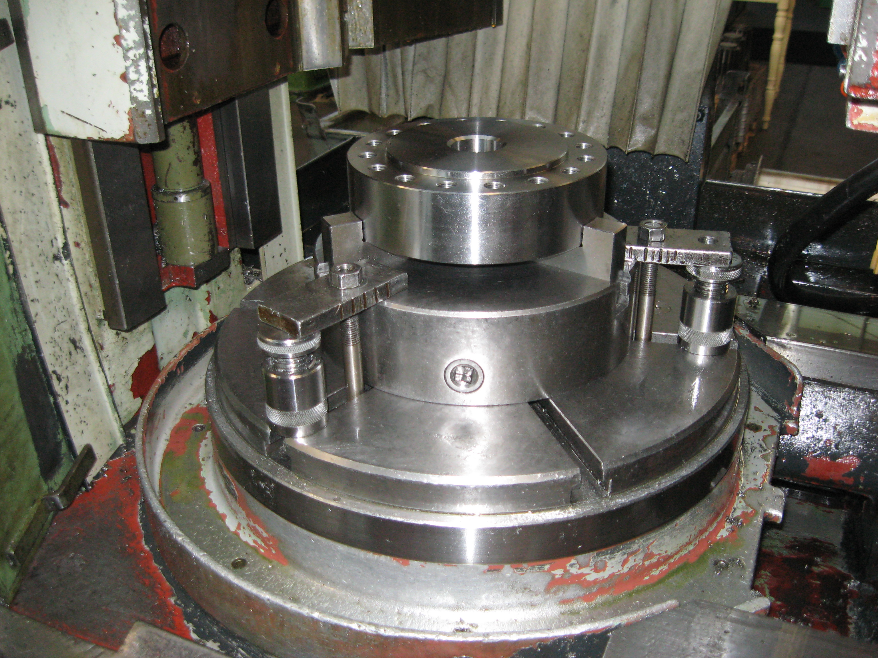 Rotary Table of a tooth shaping machine